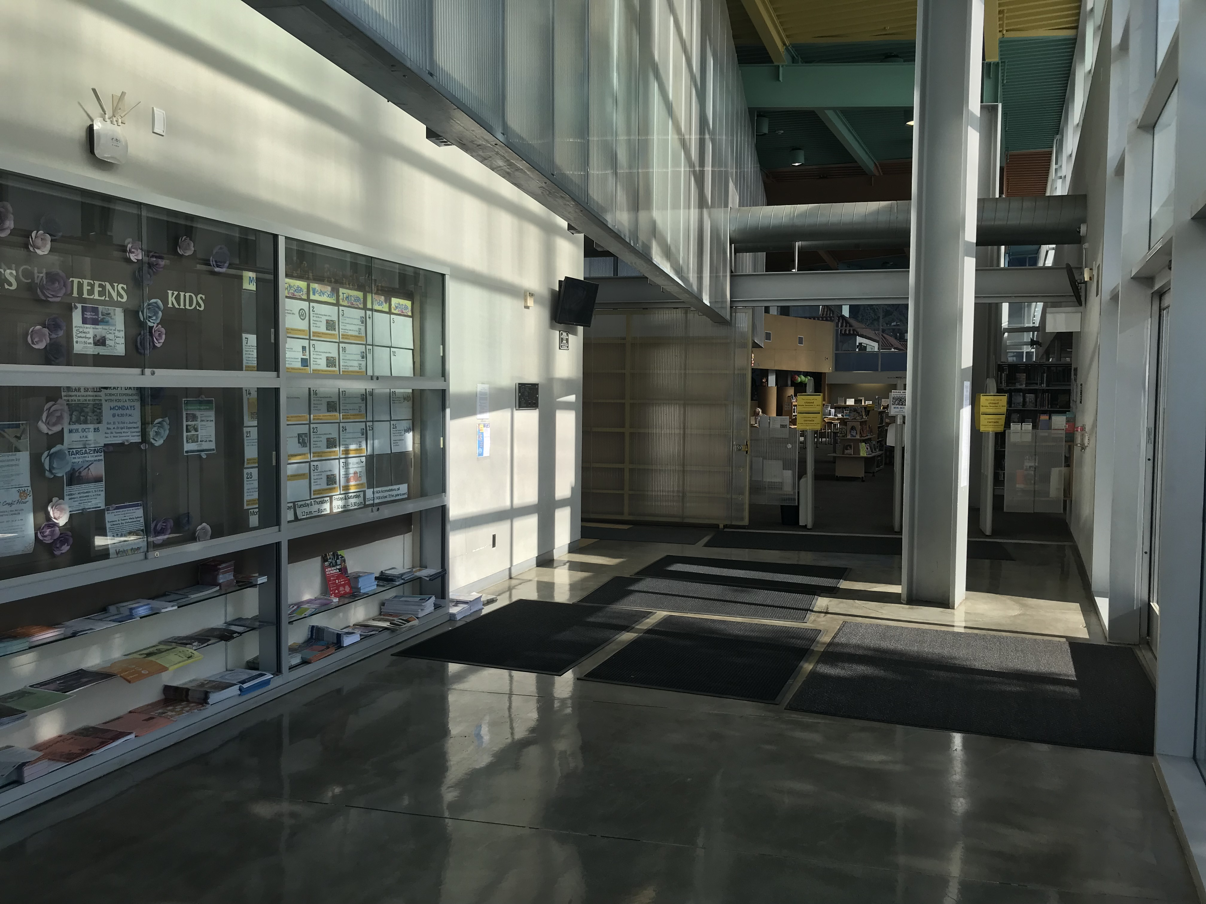 Entrance area of Sylmar Library.